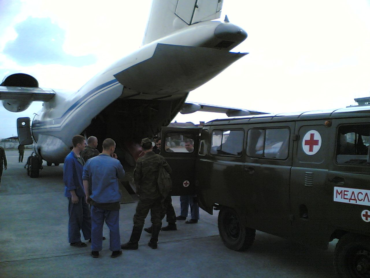 Second Chechen War